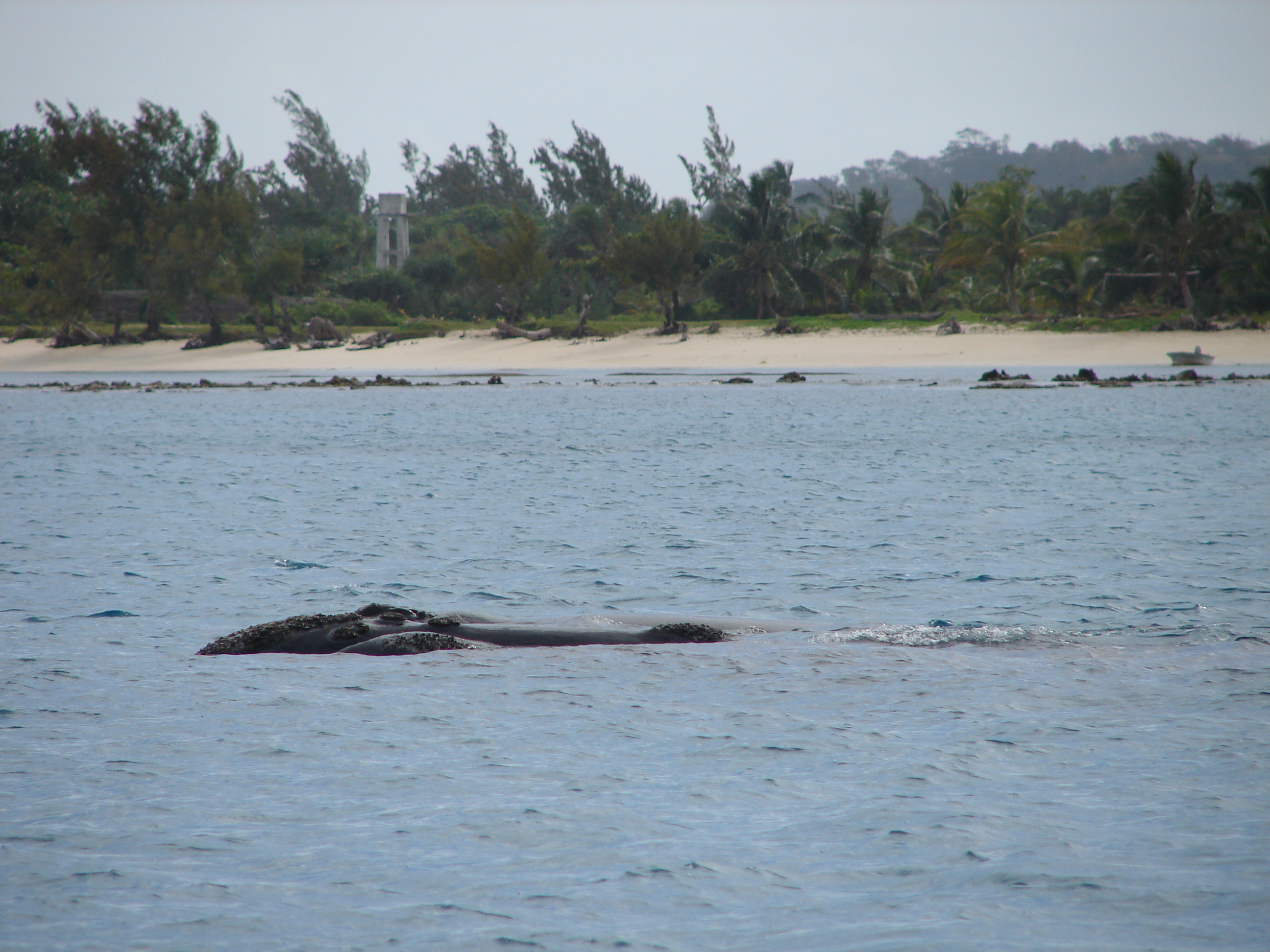 Southern right whale (Eubalaena australis), Île Sainte-Marie